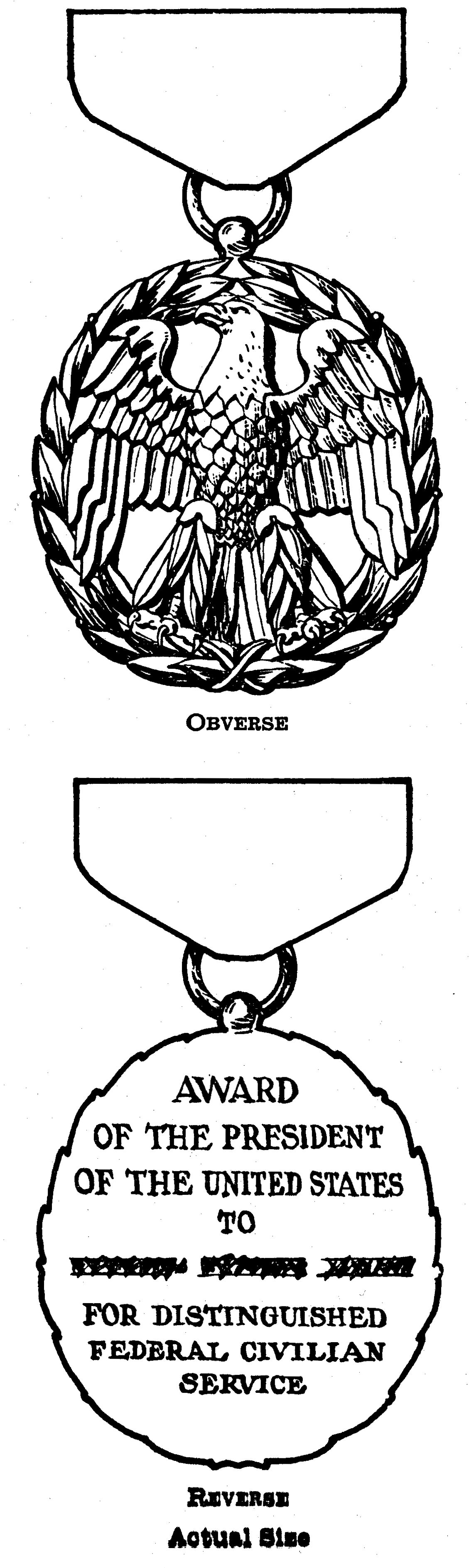 Illustration of the medal for the U.S. President's Award for Distinguished Federal Civilian Service, as shown in Executive Order 10717, which created the award and defined the design.